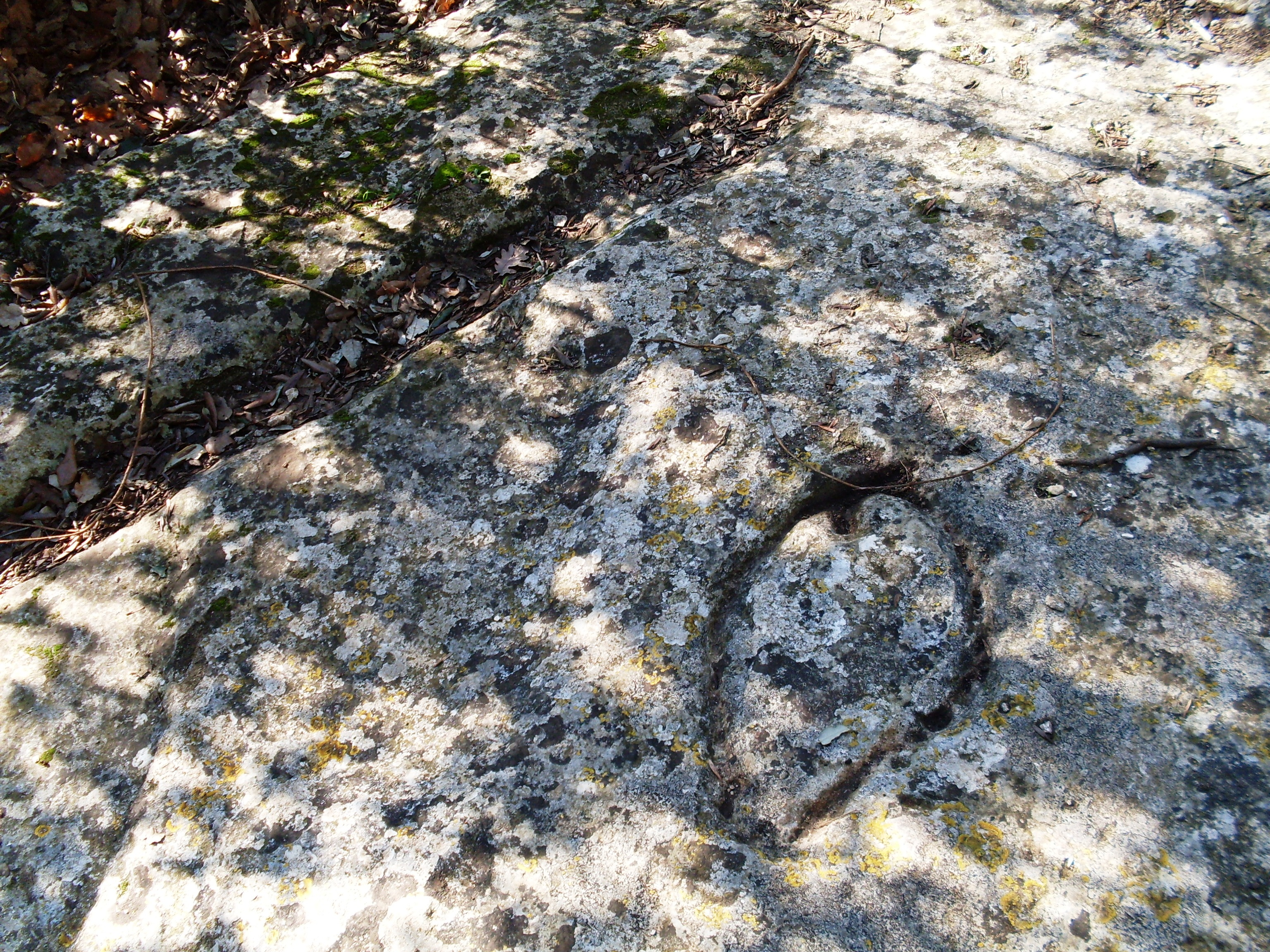 Italy Ancona Mount Conero - Engraved rocks